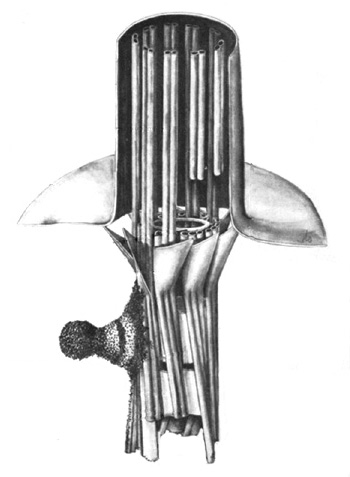 Representation of the basal apparatus of a cilium. A prominent basal foot can be seen on the left side, and also the transitional fibers ("alar sheets").